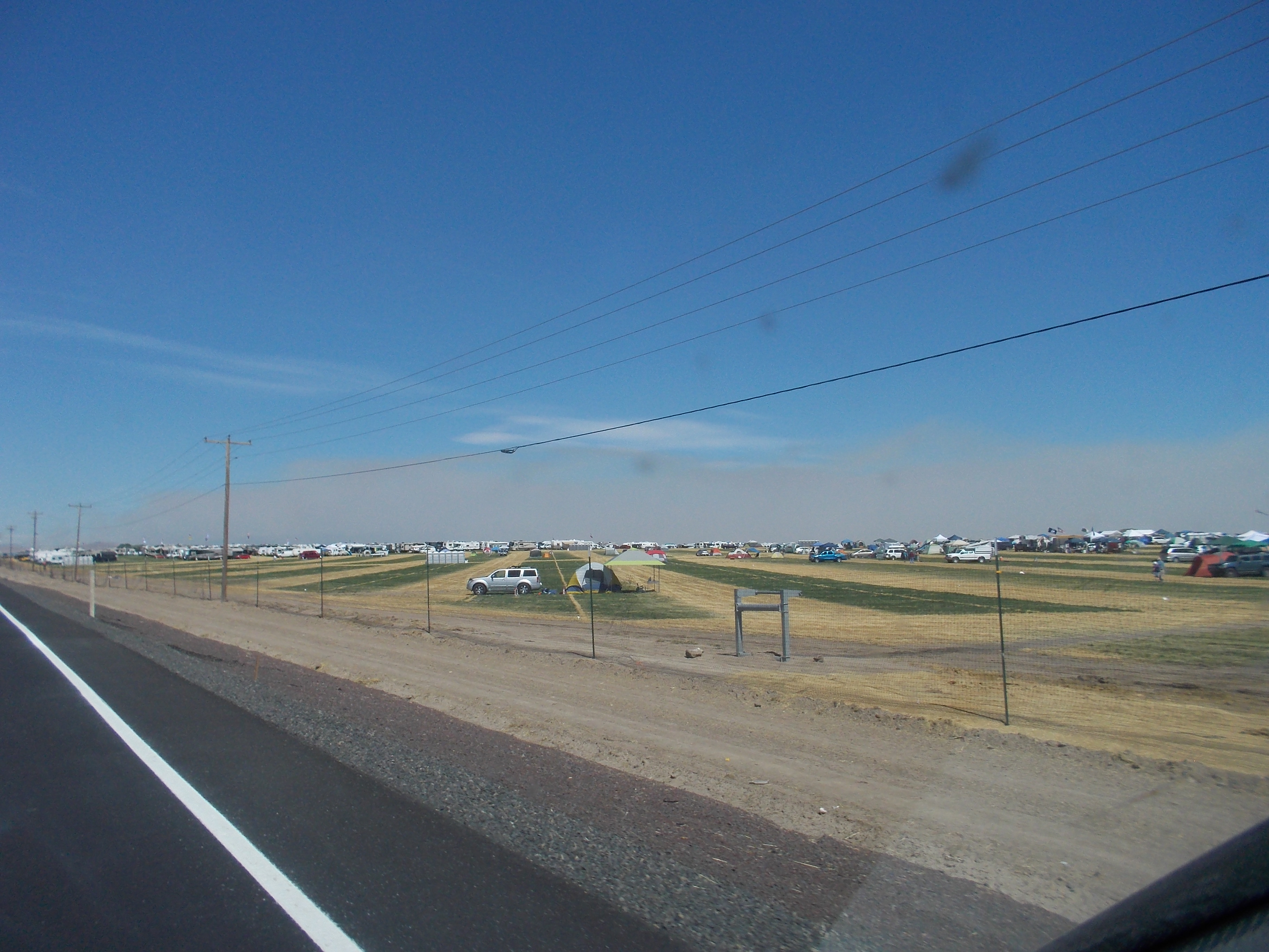 Eclipse camp outside Madras, Oregon on Friday, August 18, 2017, three days before eclipse. This was 0.2 days after the Moon reaches perigee. The Moon was at perigee, making it extremely large.